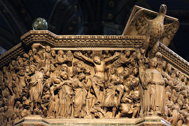 An image of one of the eight panels of Nicola Pisano's Siena Pulpit